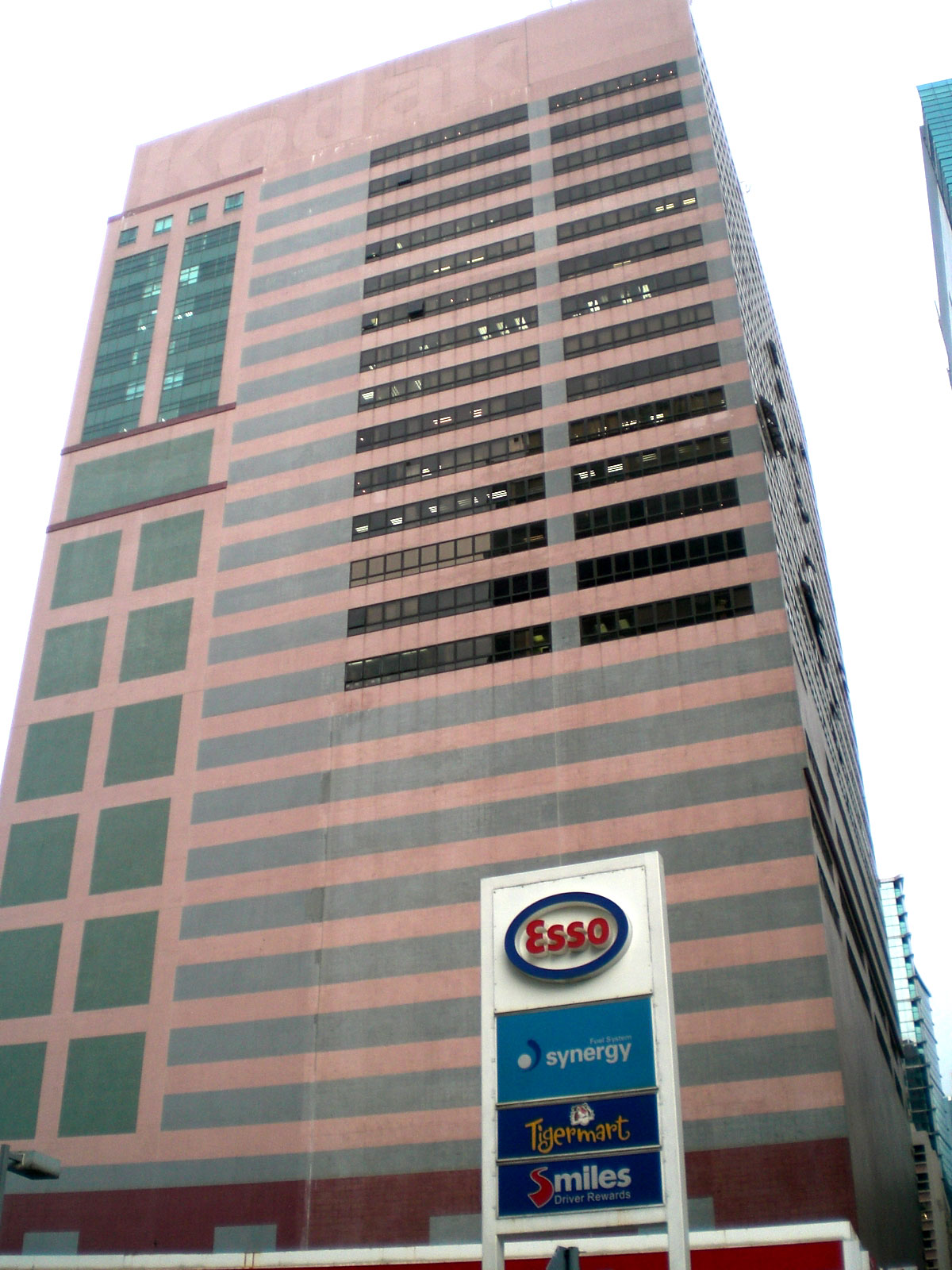 北角渣華道黃昏 zh-yue:柯達大廈